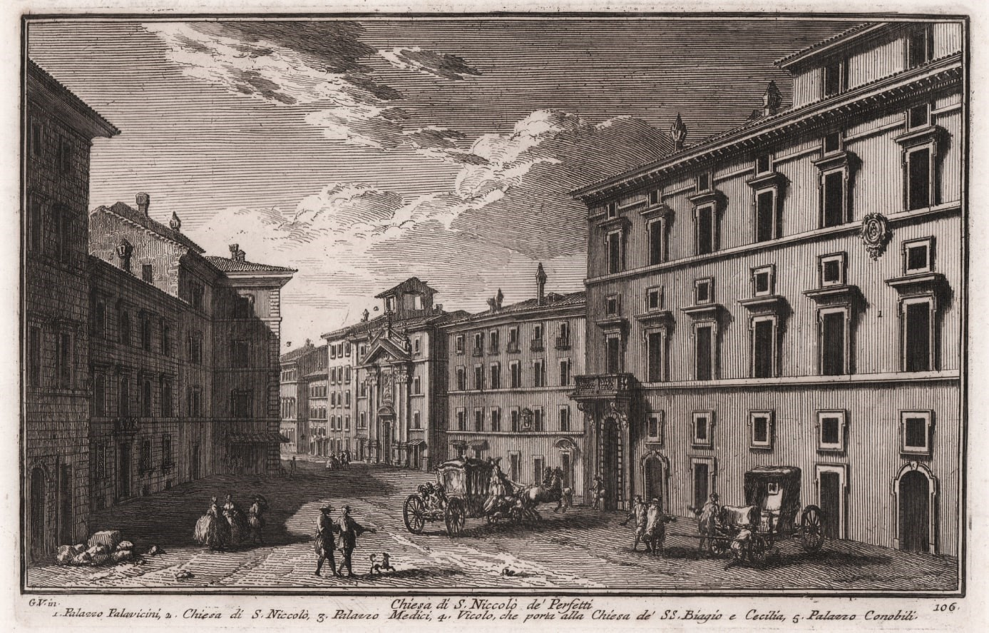 1) Palazzo Pallavicini; 2) S. Niccolò; 3) Palazzo Medici; 4) Street leading to the church of SS. Biagio e Cecilia (today called Madonna del Divino Amore); 5) Palazzo Conobili.